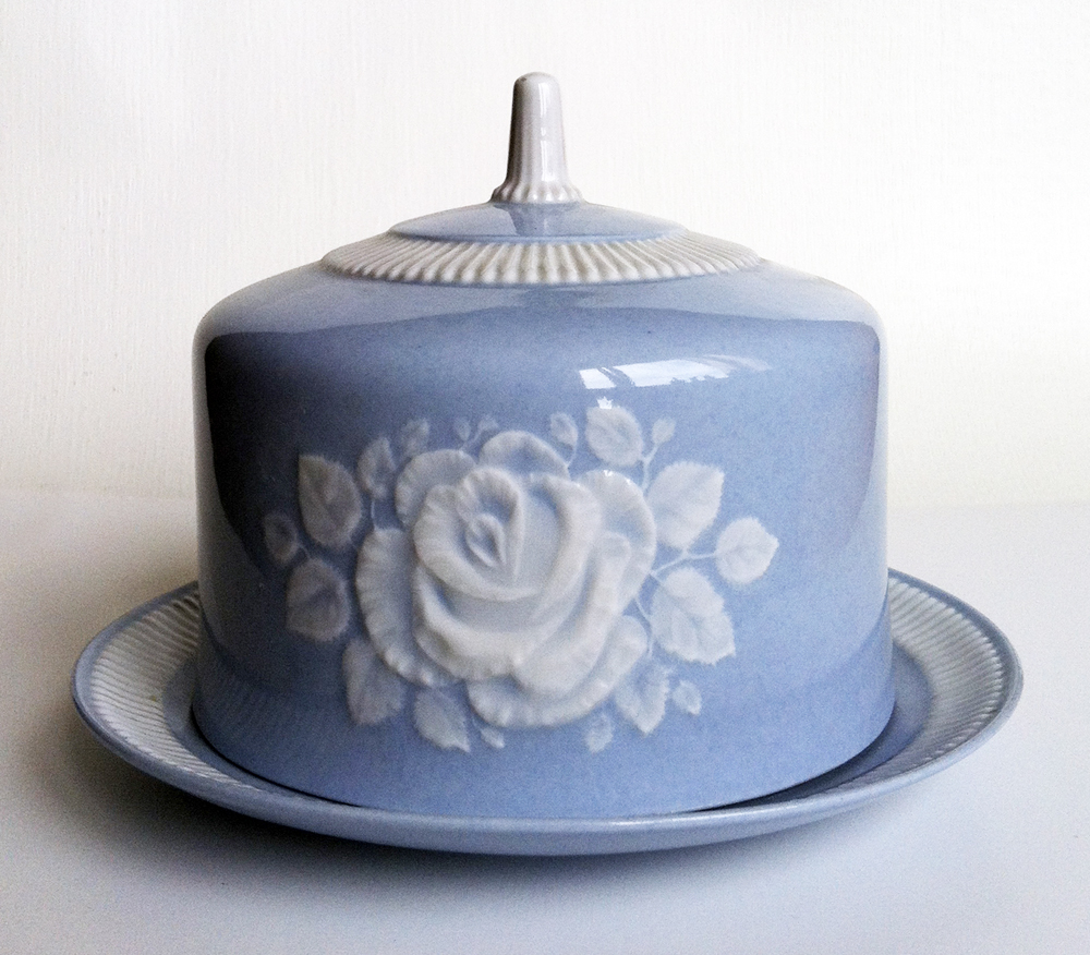 Porcelain. Author Bystrushkin B.D.